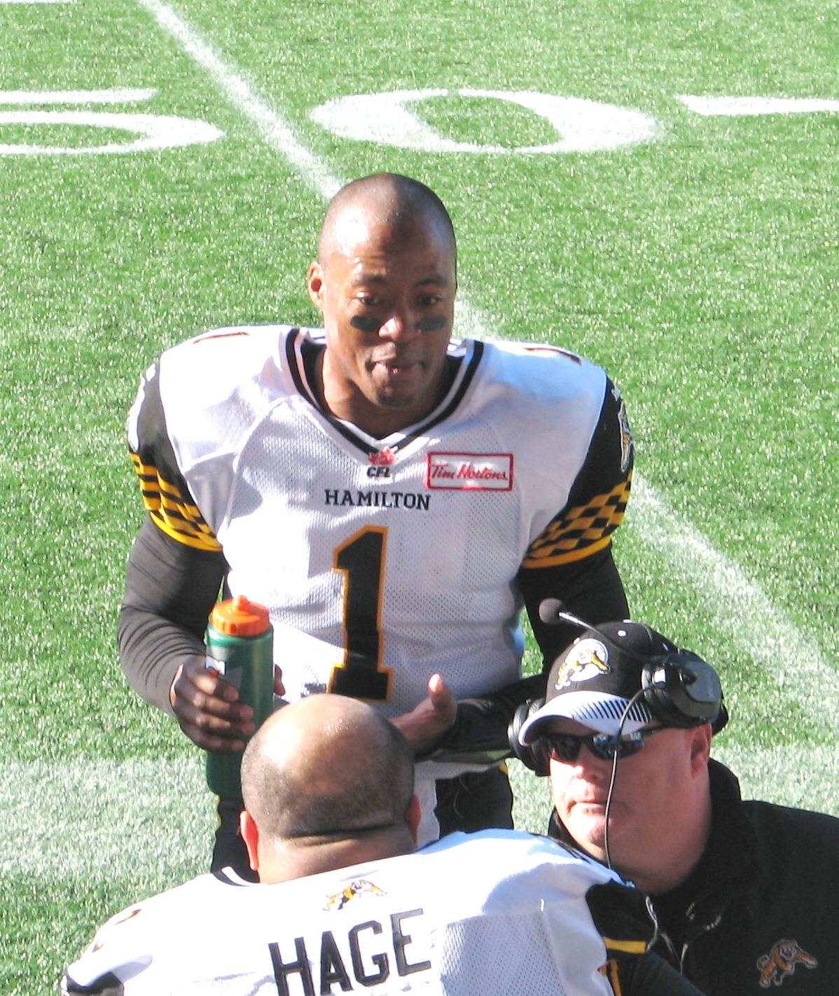 Canadian Football League quarterback Henry Burris, photographed at Investors Group Field in Winnipeg, Manitoba on November 2, 2013 playing in the last regular season game of the Hamilton Tiger-Cats for the 2013 CFL season.